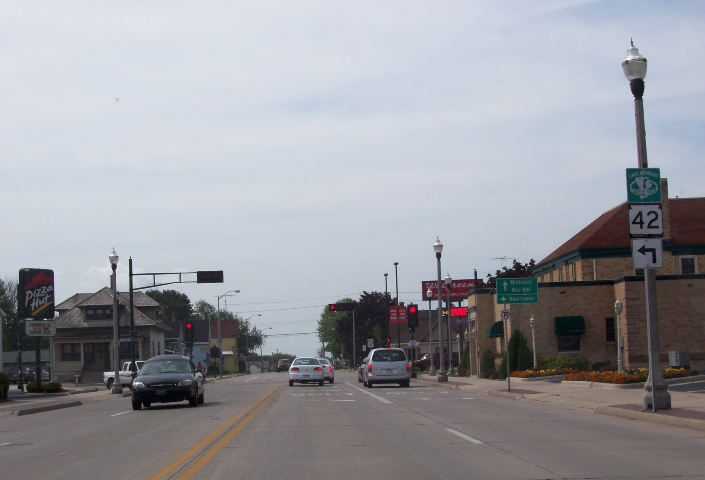 The southeastern terminus of Highway 147 (Wisconsin) (straight) at Highway 42 (Wisconsin) in Two Rivers, Wisconsin. Travelly westbound on Highway 42. This image was taken August 27, 2006 by User:Royalbroil Category:Images of Wisconsin highways